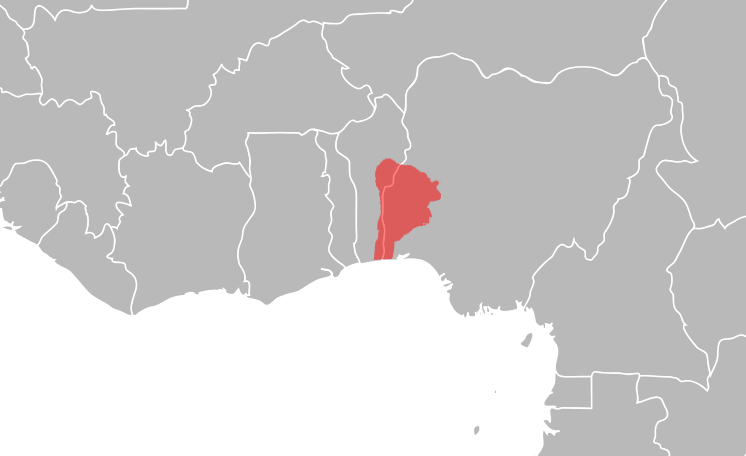 Greatest extent of the Oyo Empire